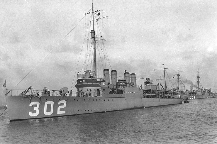 The U.S. Navy destroyer USS Stoddert(DD-302) at anchor, circa 1920.